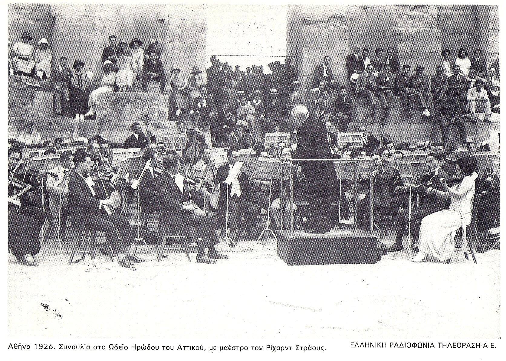 Photo of Greek newspaper of Strauss conducting.